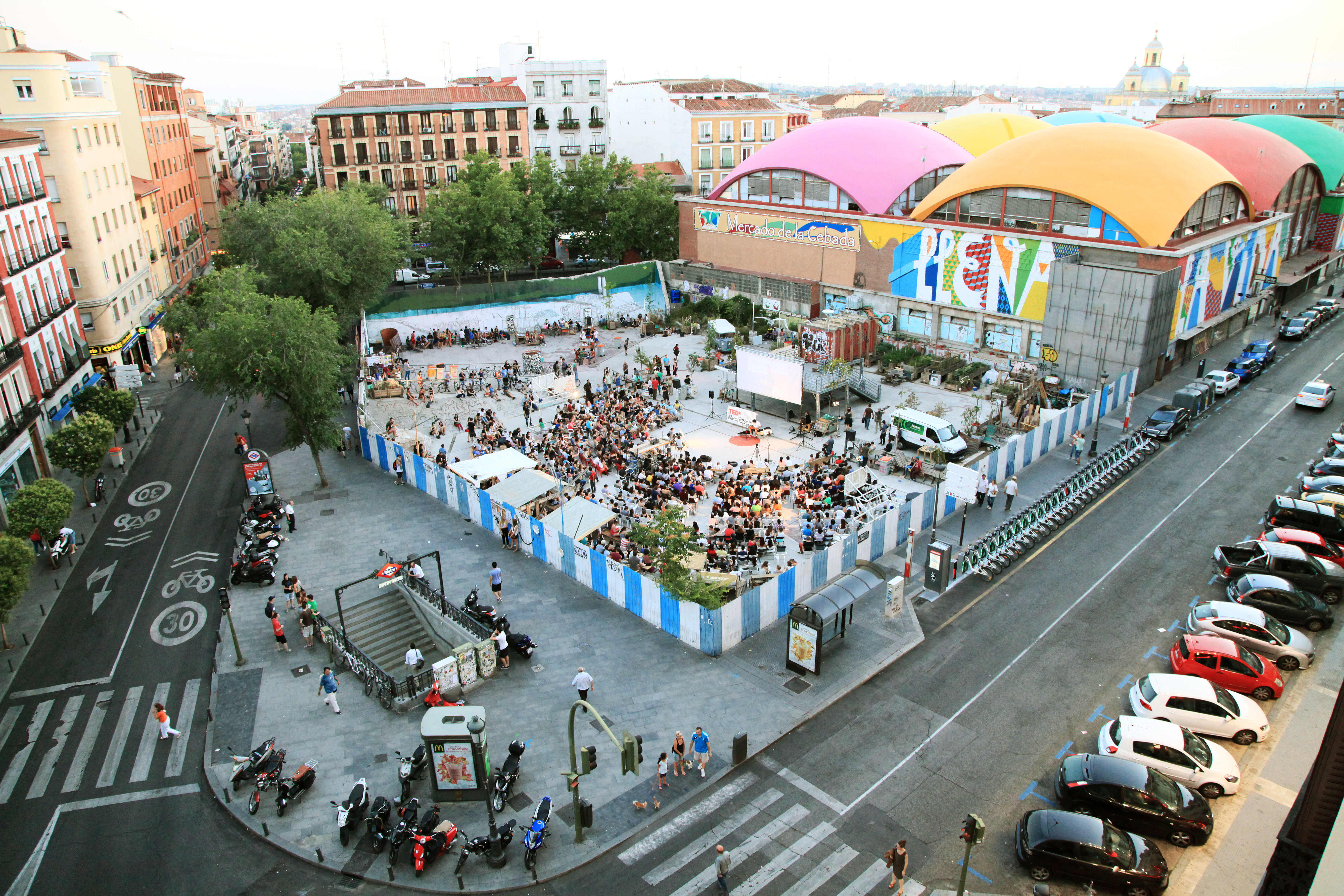 This document shows the Campo de Cebada in Madrid, a public, free shaped, variable space in the center district La Latina. With it the shown art work on the walls are situated permanent in public area.